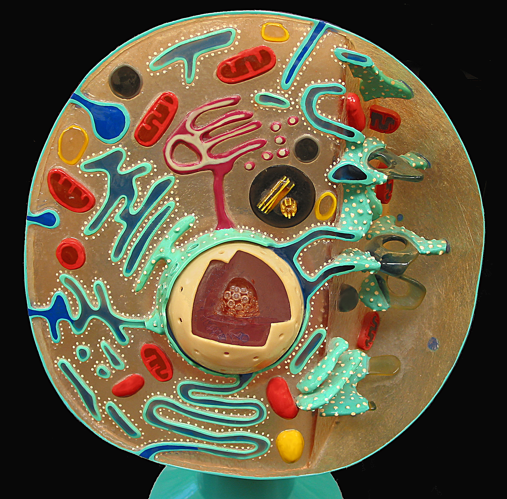 Model of an animal cell consisting of the essential organs of a composite cell.